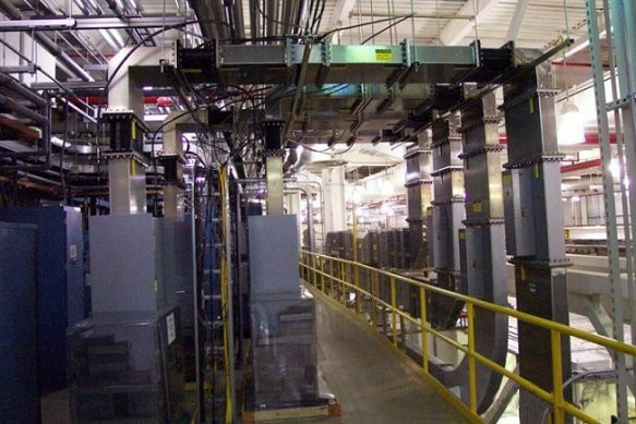 Waveguide at the Argonne National Laboratory Advance Proton Source.